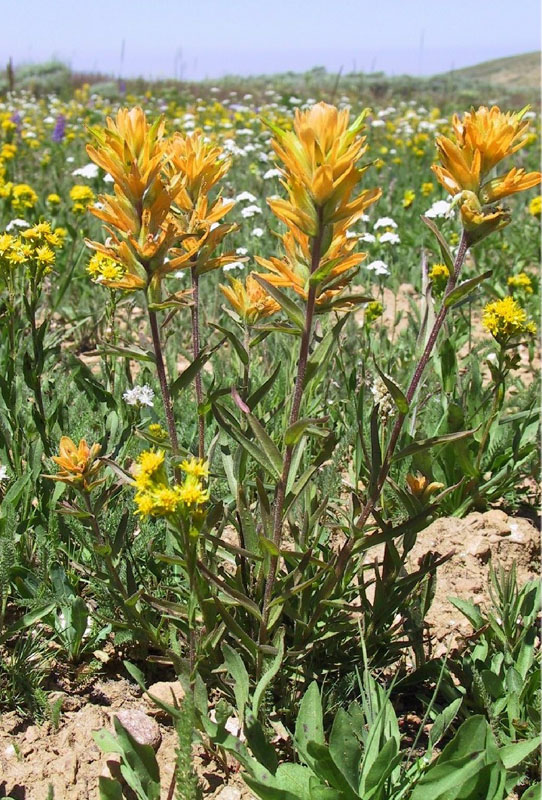 Castilleja christii (Christ's Indian Paintbrush) in the Albion Mountains of Idaho, USFS photo